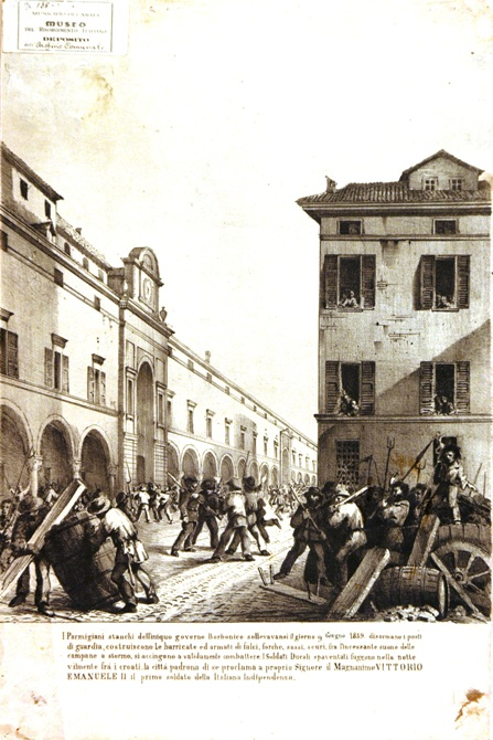 Parma insurrection, 9 june 1859 against Austria